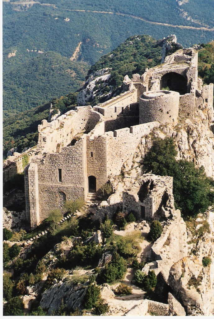 Château de Peyrepertuse, France